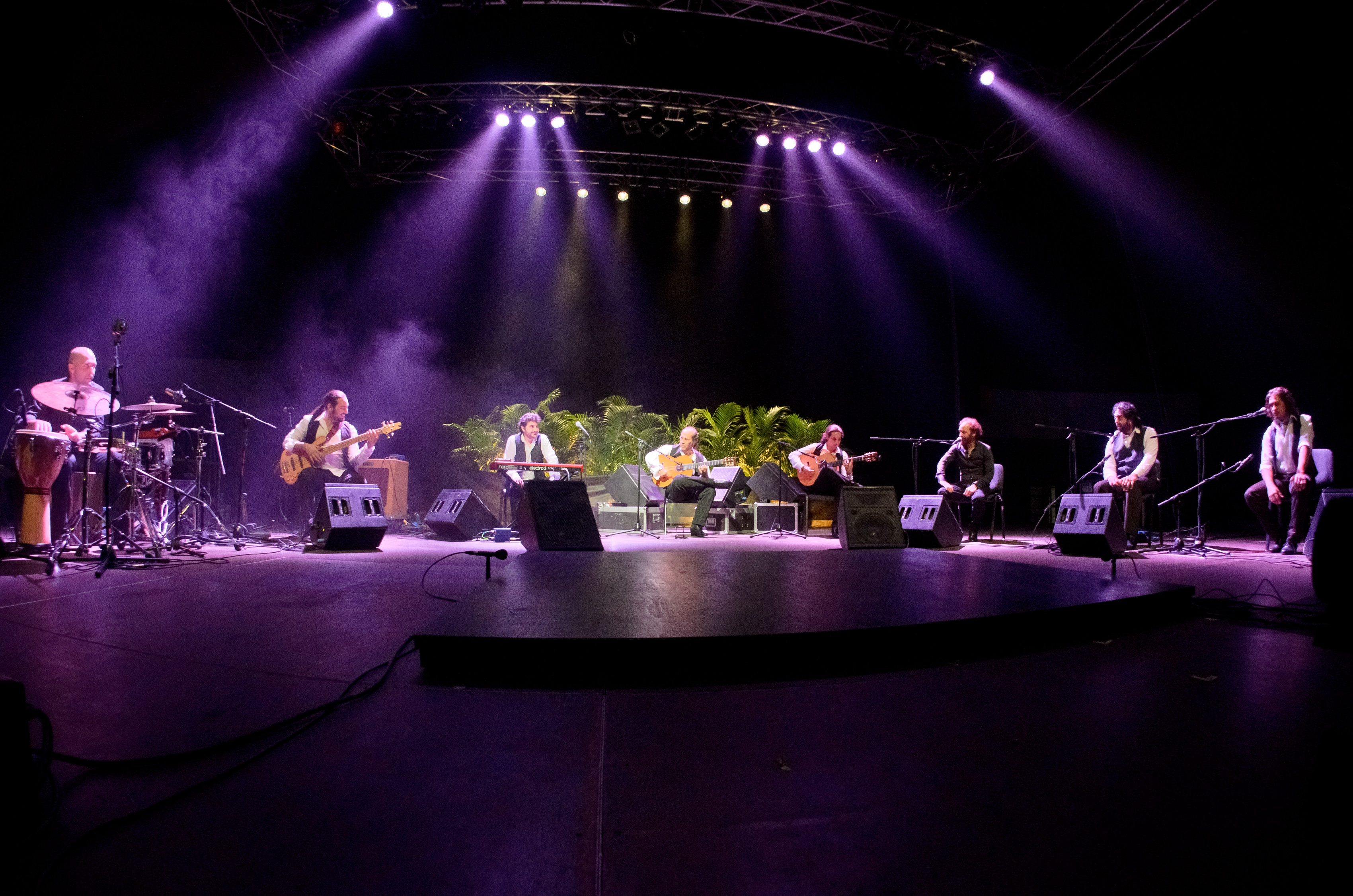 Wrocławski Festiwal Gitarowy, fot. Jarek Pępkowski